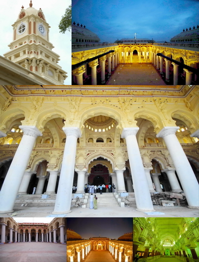 Madurai Thirumalai Nayak Palace Collage